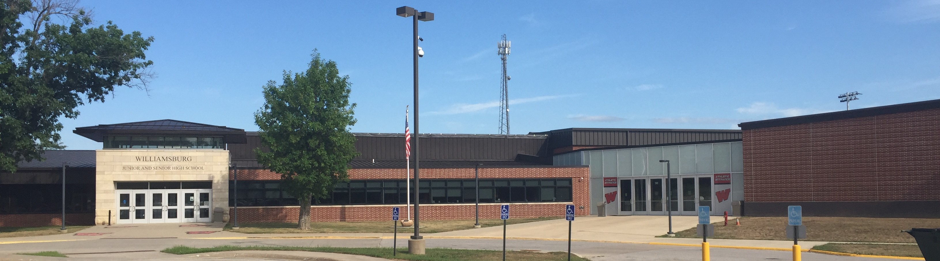 main entrance to Williamsburg Jr-Sr High School, Williamsburg, Iowa